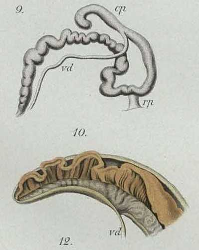 Limax conemenosi Simroth, 1889, Limacidae, Pulmonata, Gastropoda, "Korax" mountain, Sterea Ellada, Greece. From: Simroth, H. 1889. Die von Herrn E. v. Oertzen in Griechenland gesammelten Nacktschnecken. - Abhandlungen der Senckenbergischen Naturforschenden Gesellschaft 16: 3-27, pl.1, figs.9,10.